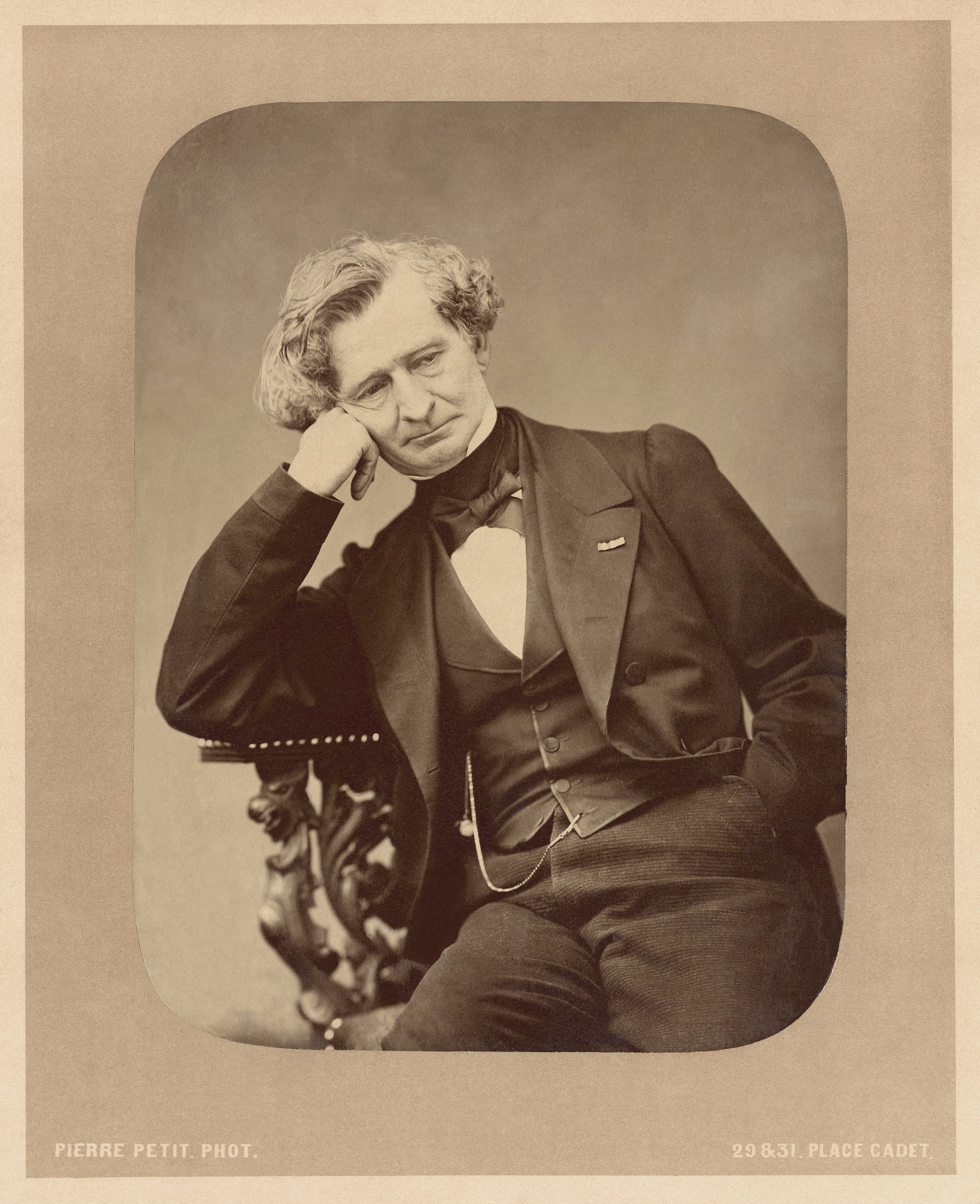 Hector Berlioz (1803-1869)